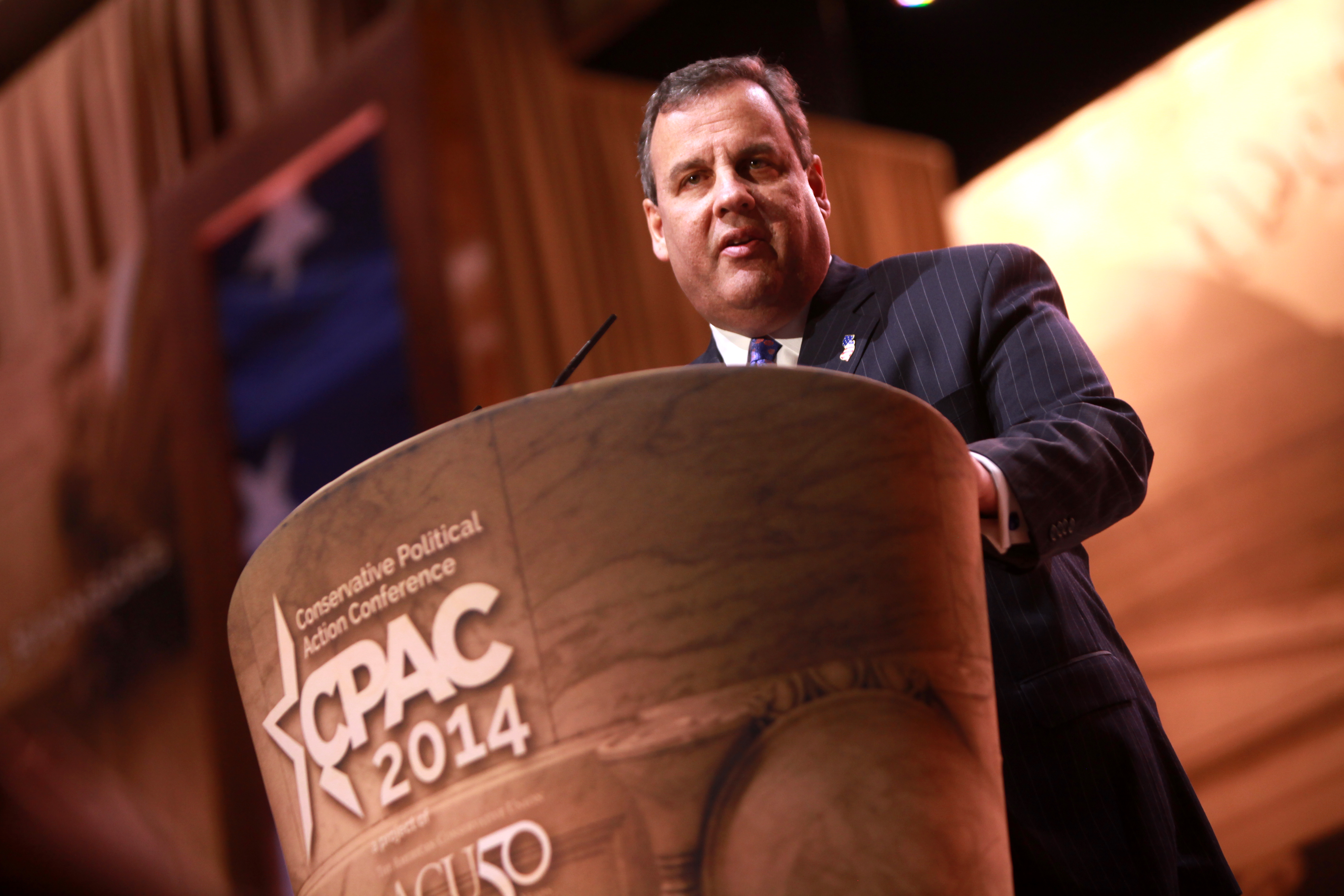 Chris Christie speaking at CPAC 2014 in Washington, DC.